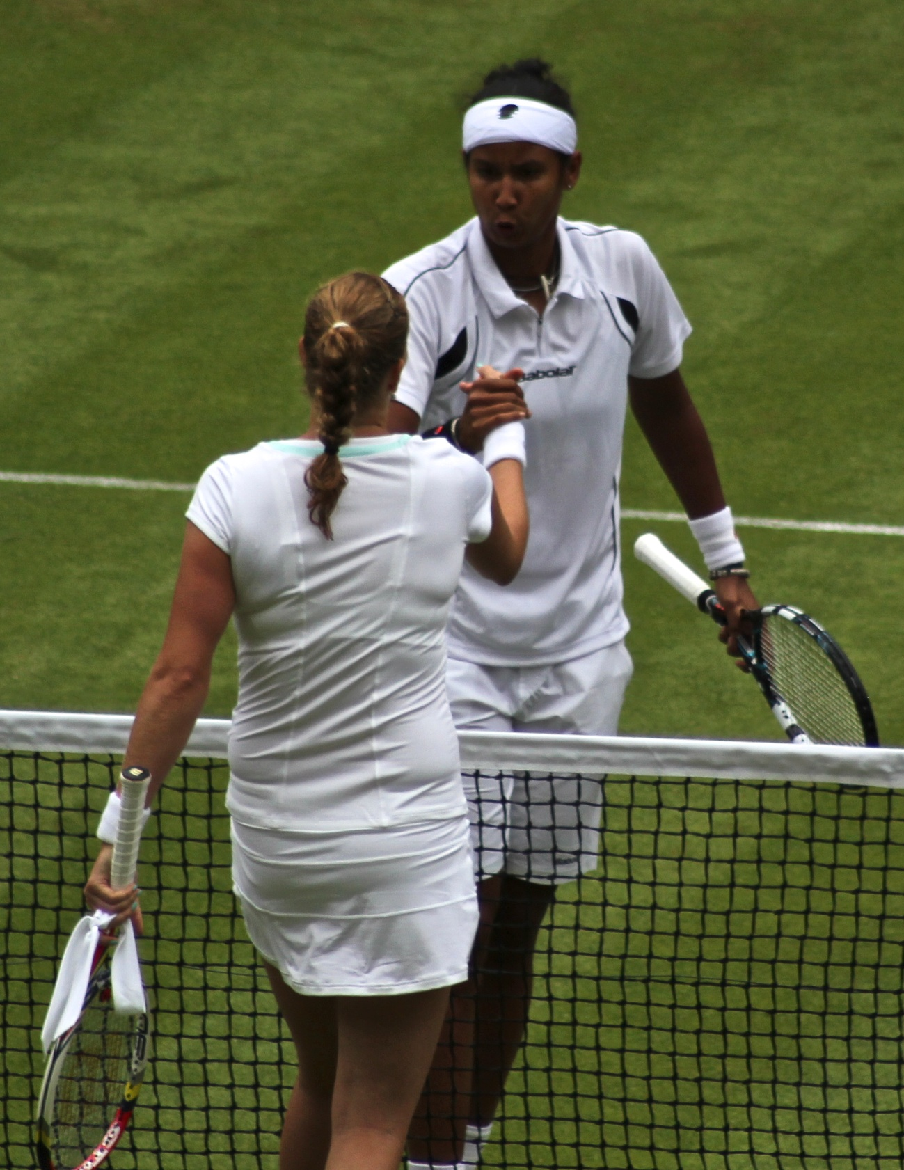 Kvitova shakes hands after defeating Amanmuradova in the first round of Wimbledon.